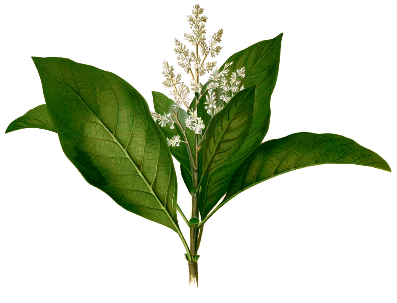 Wendlandia luzoniensis Plate from book